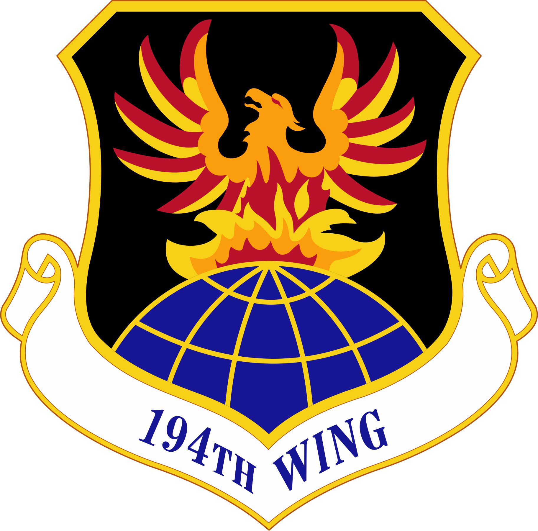 Updated unit emblem reflecting reorganization of 194th Regional Support Wing to the 194th Wing